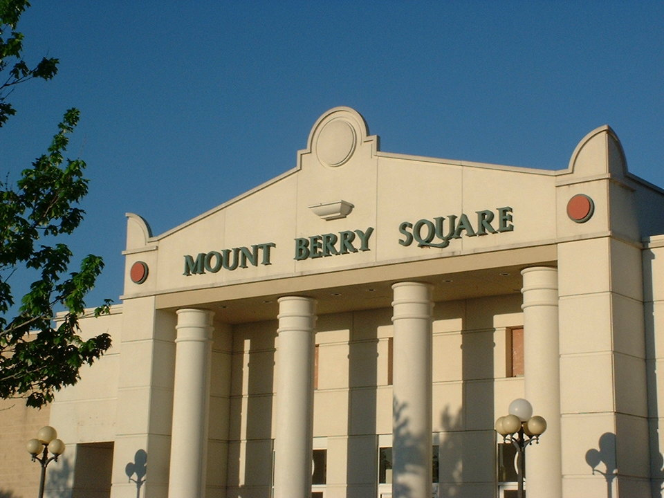 Mount Berry Square mall, the main shopping centre in Mount Berry. Taken by me on 4/14/2005.